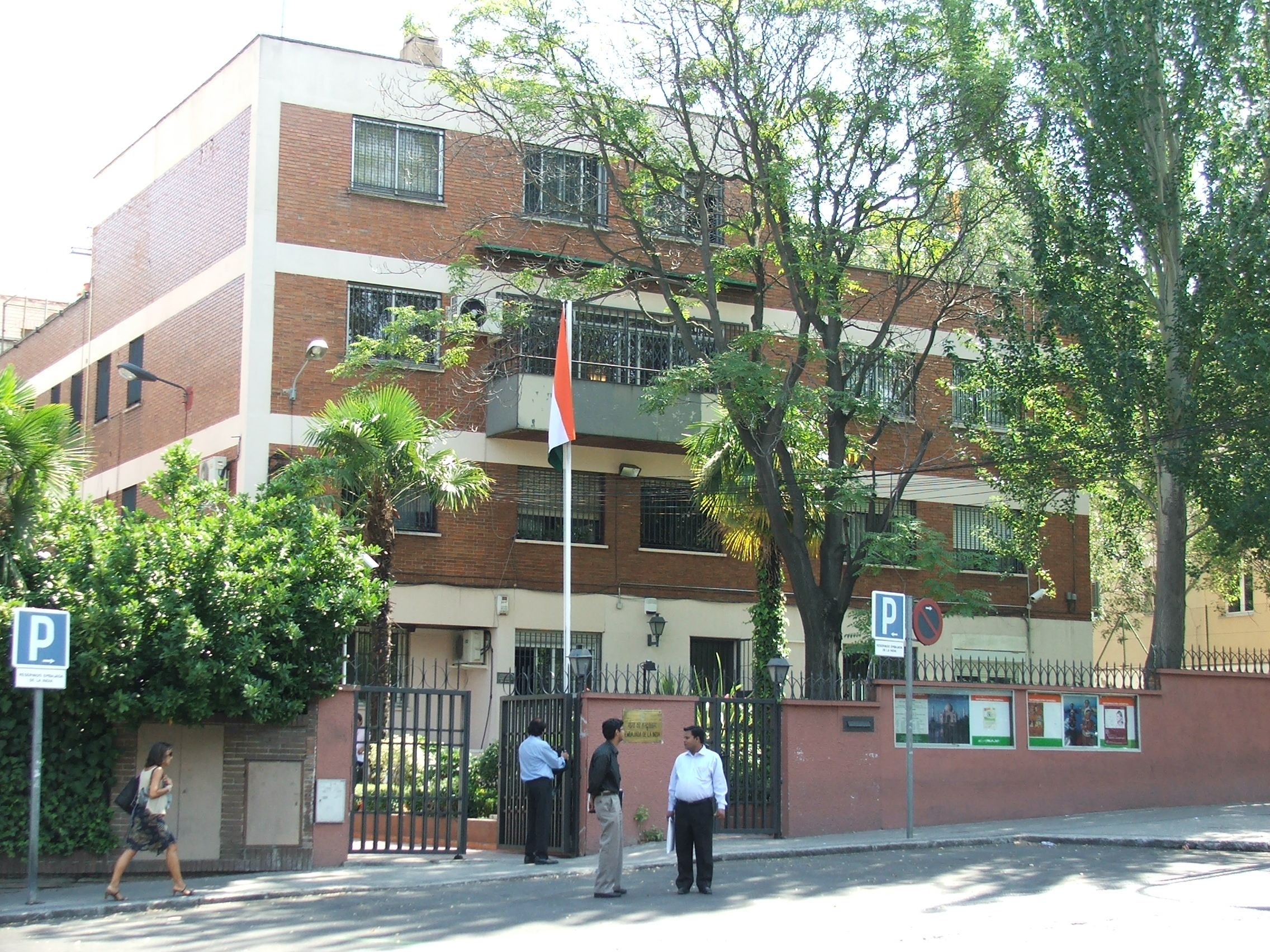 Embassy of India in Madrid - Spain.